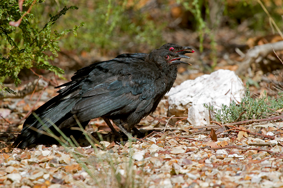 Strangways Vic. The regulars on a foray in our front yard harvesting Ruby Saltbush berries